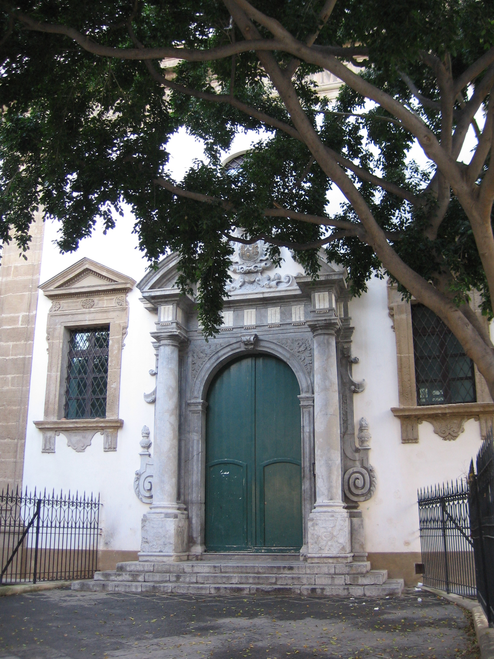 Entrance of the Jesuits 'Casa Professa' of Palermo (Sicily), attached to the Gesù church (now: the municipal library)